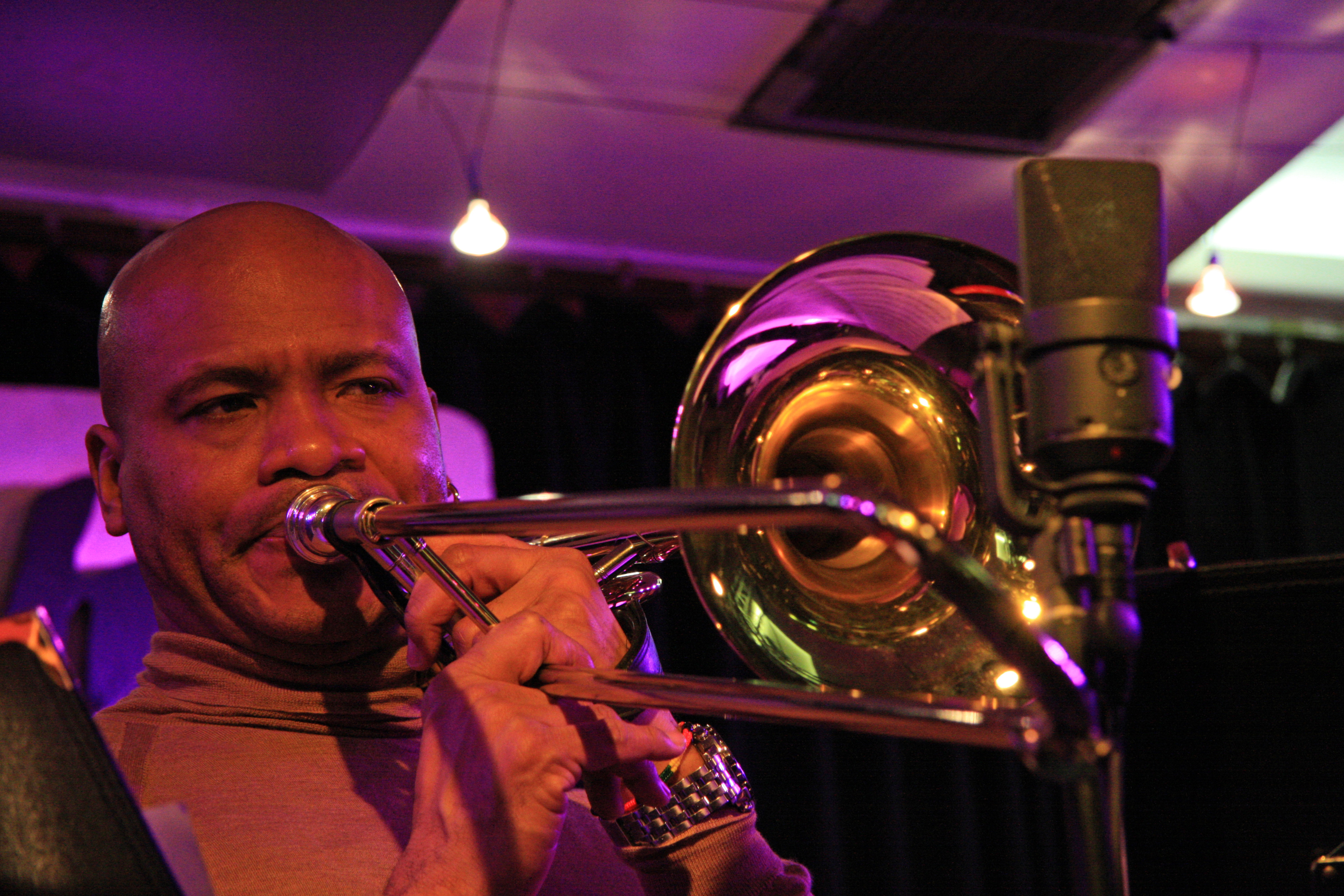 Robin Eubanks performing at a workshop in Munich (Germany) with the band San Francisco Jazz Collectiv